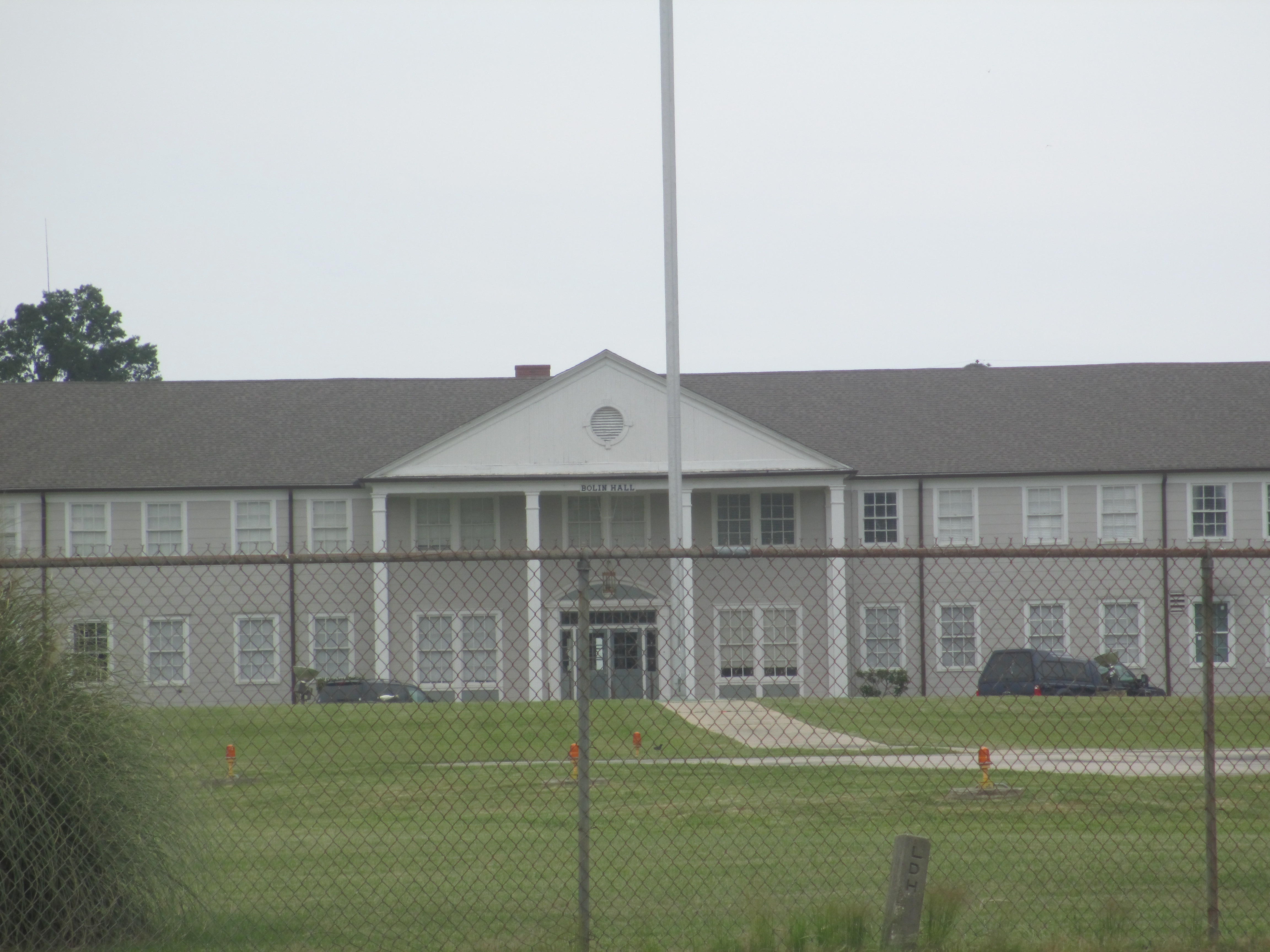 I took photo of main LAAP building near Minden, LA, with Canon camera.